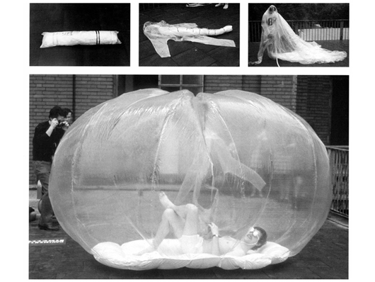 CUSHICLE, 1964